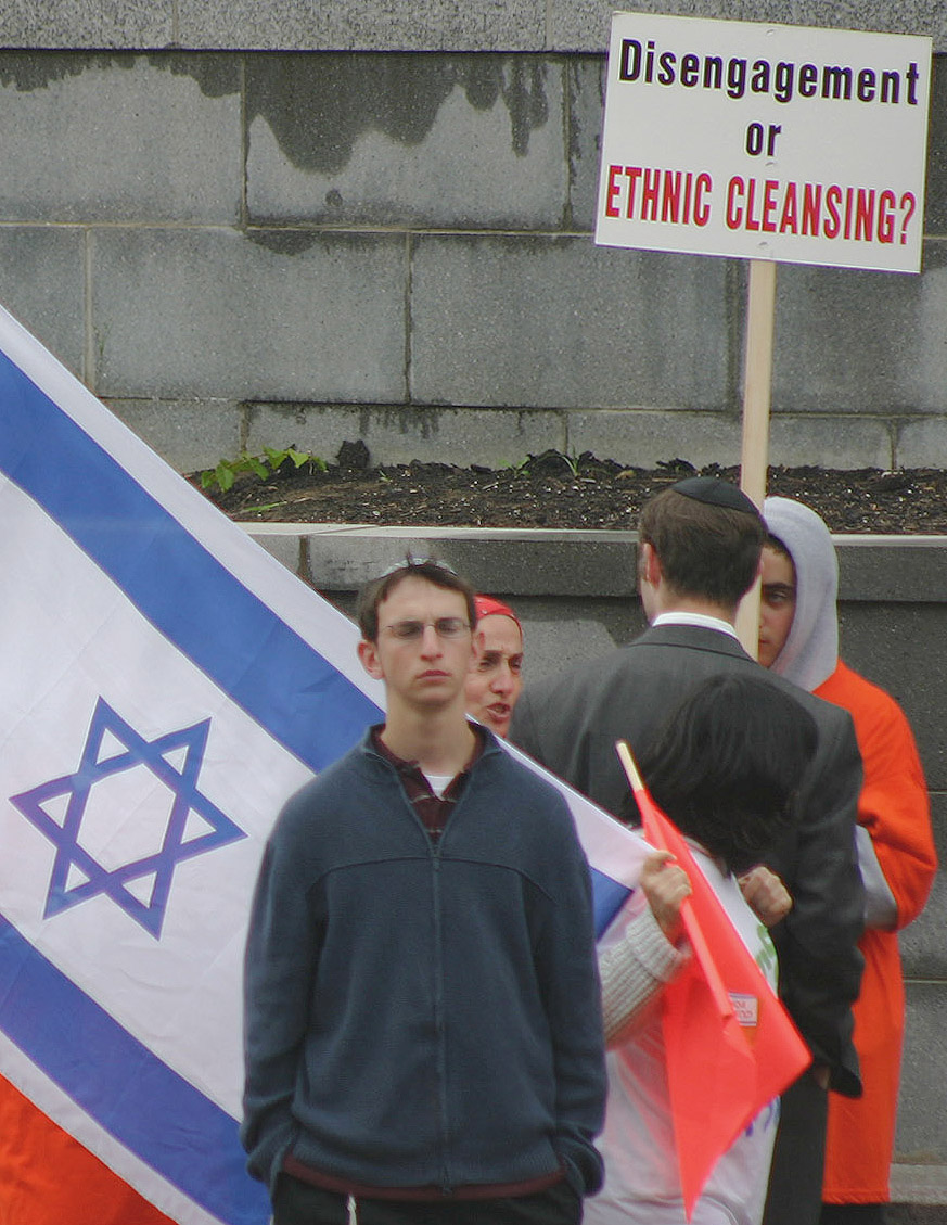 Protest at AIPAC (American Israel Public Affairs Committee) meeting at the DC Convention Center